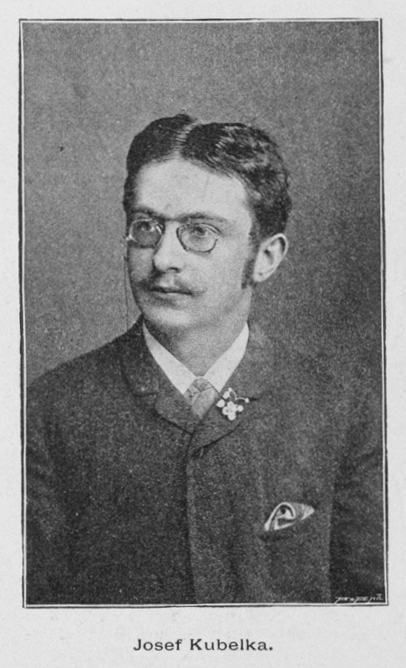 Portrait of Josef Kubelka (1868-1894), Czech poet and translator.